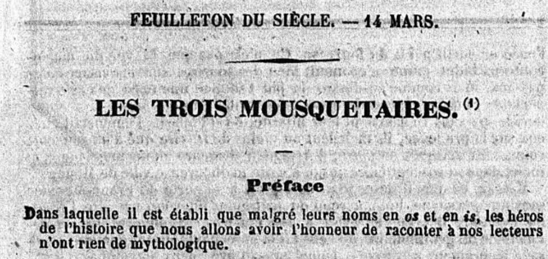 The original, first-ever publication of The Three Musketeers in the French magazine Le Siècle.